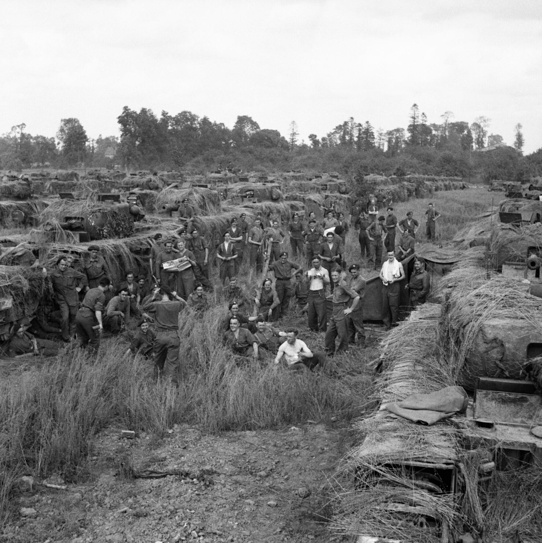 The British Army in Normandy 1944 Churchill tank crews of 31st Tank Brigade with their extensively camouflaged vehicles, 13 July 1944.